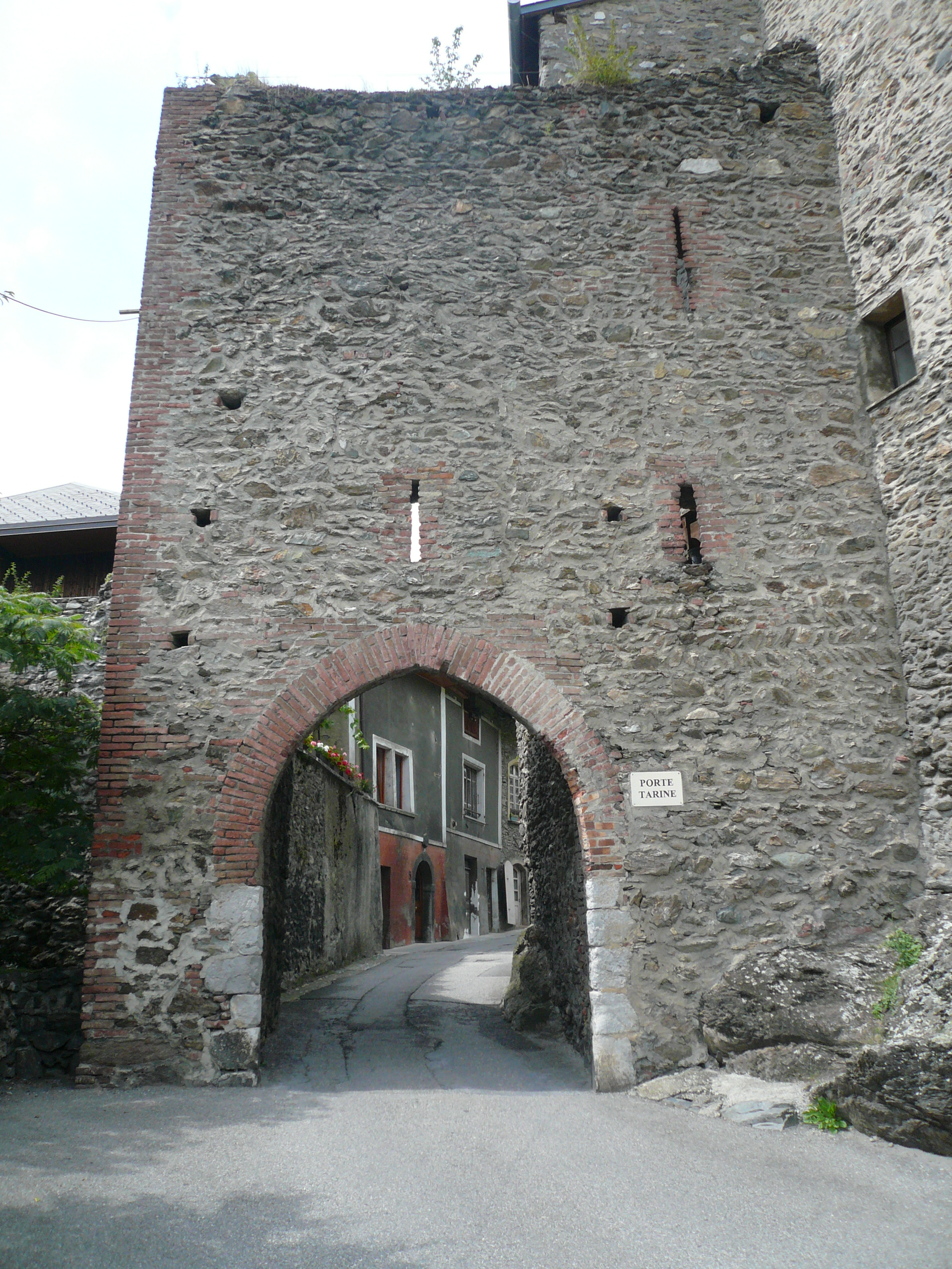 The Tarine's Gate in Conflans (Albertville), Savoy, France